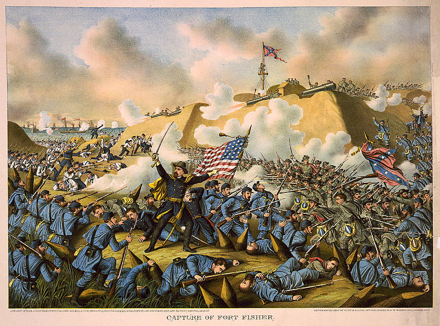 Capture of Fort Fisher by Union troops, chromolithograph by Kurz & Allison